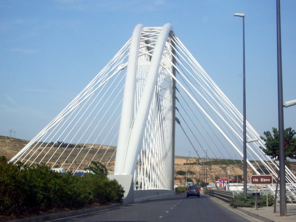 The "Forth Bridge" of Logroño (Spain) over the River Ebro.